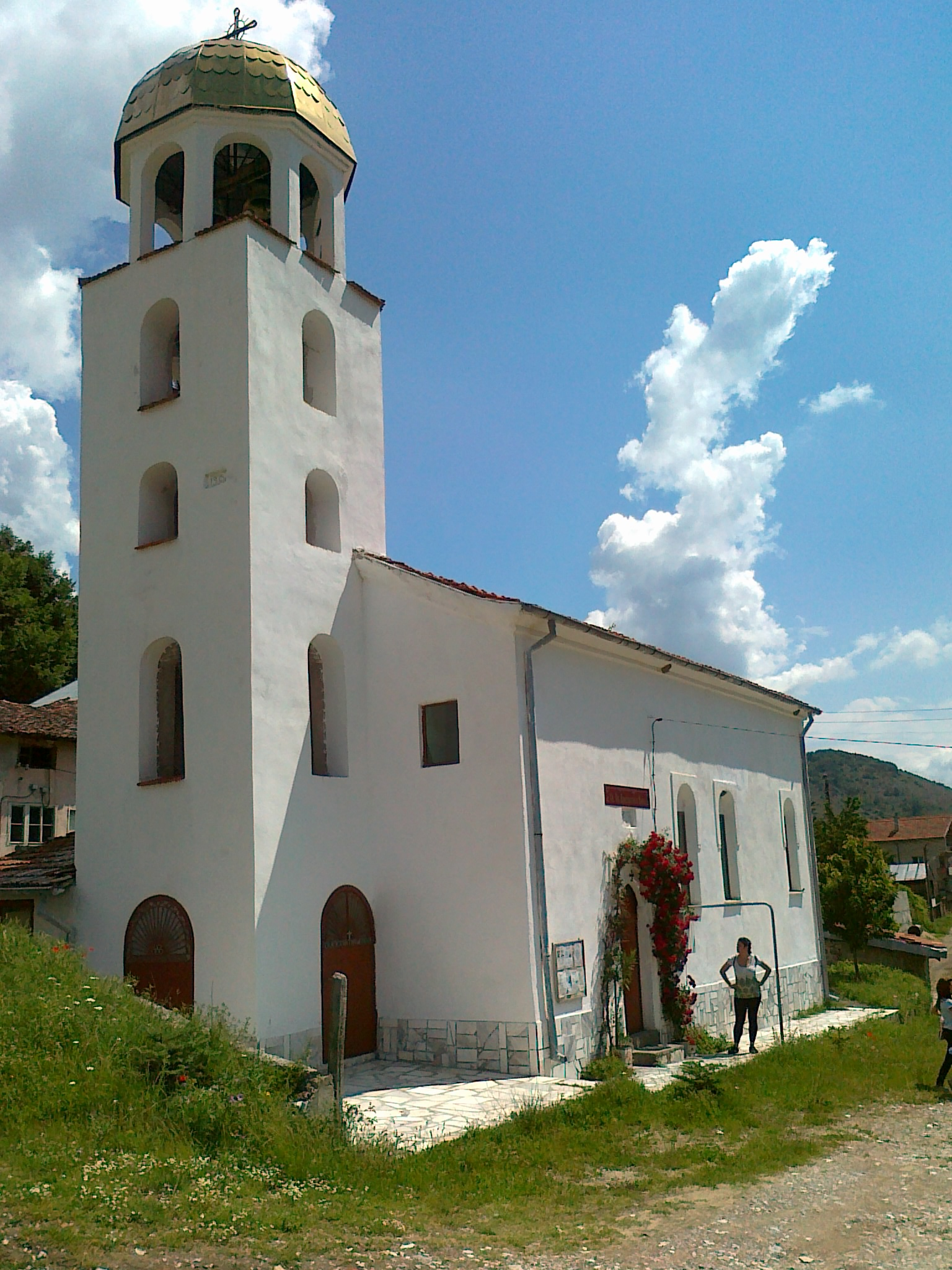 Church St. st. Constantine and Helena